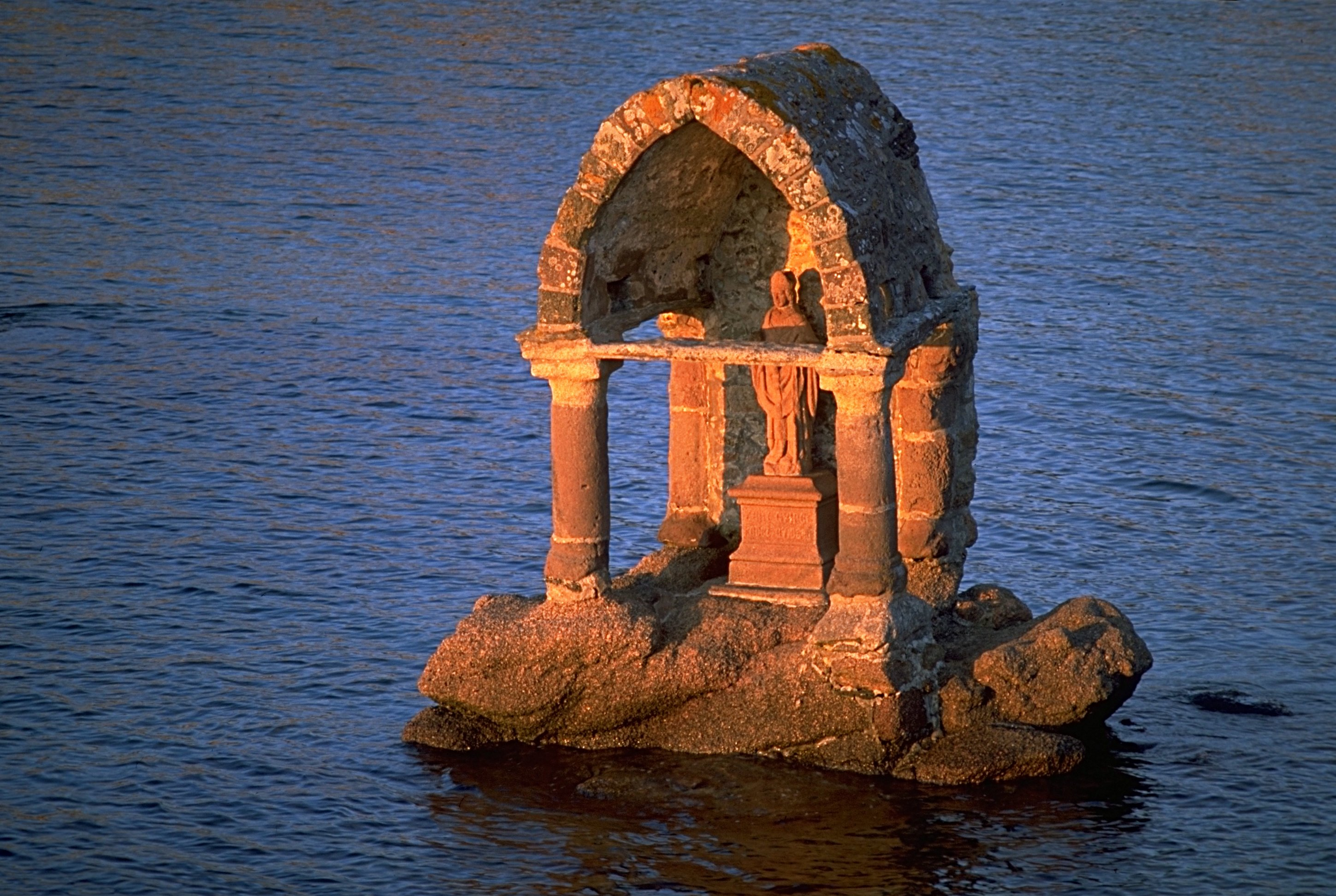 Oratorium St. Guirec near Ploumanac'h, Brittany, France Photo was taken using the following technique: Film: Fuji Velvia Lens: 2.4/100 Macro Filter: none Body: Minolta 7 Support: Manfrotto 190B Image with Information in English Bild mit Informationen auf Deutsch